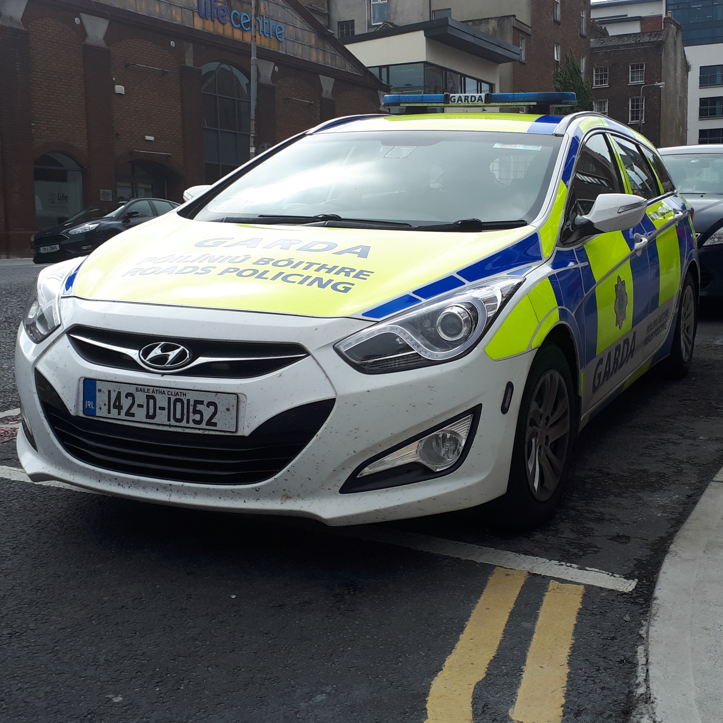 An garda siochana hyundai i40